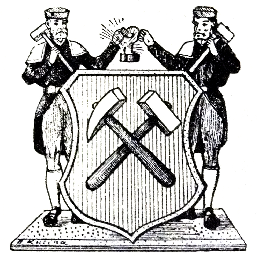 Historical coat of arms of Český Wiesenthal, today's town of Loučná pod Klínovcem, the Czech Republic.